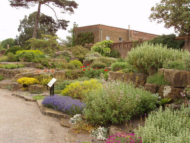 Kew gardens rockery. This area has African and Mediterranean plants